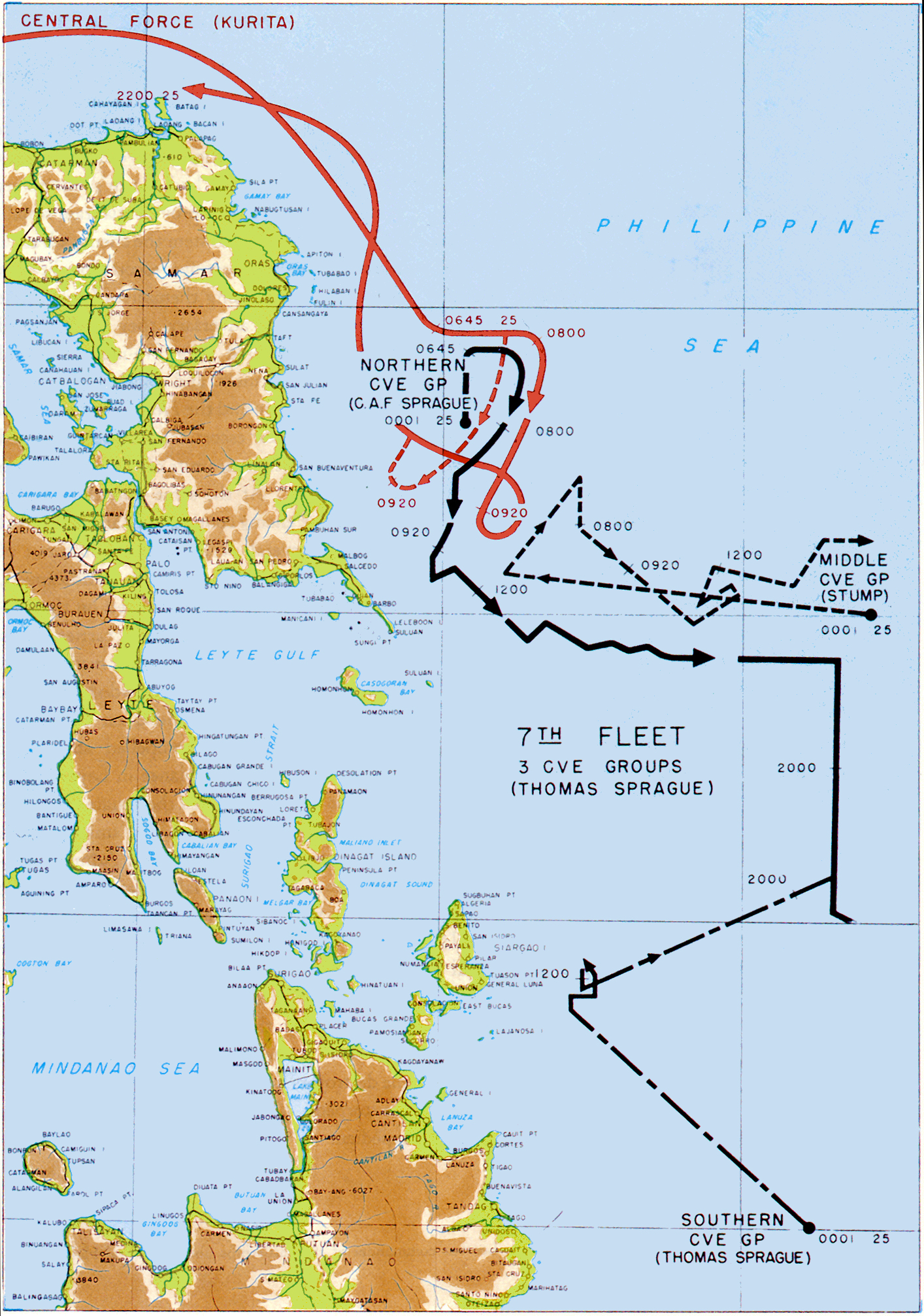 Battle off Samar. Part of the Battle of Leyte Gulf.